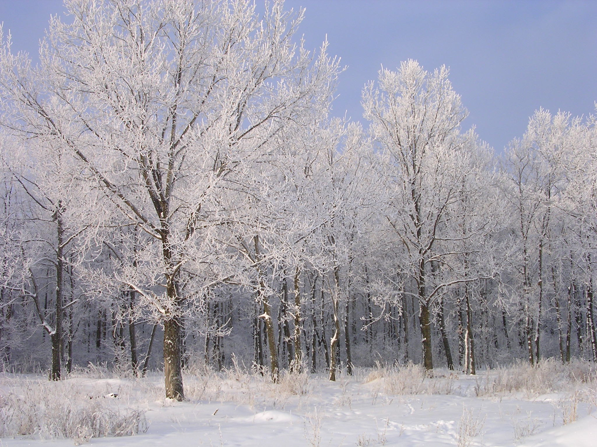 Hoar frost